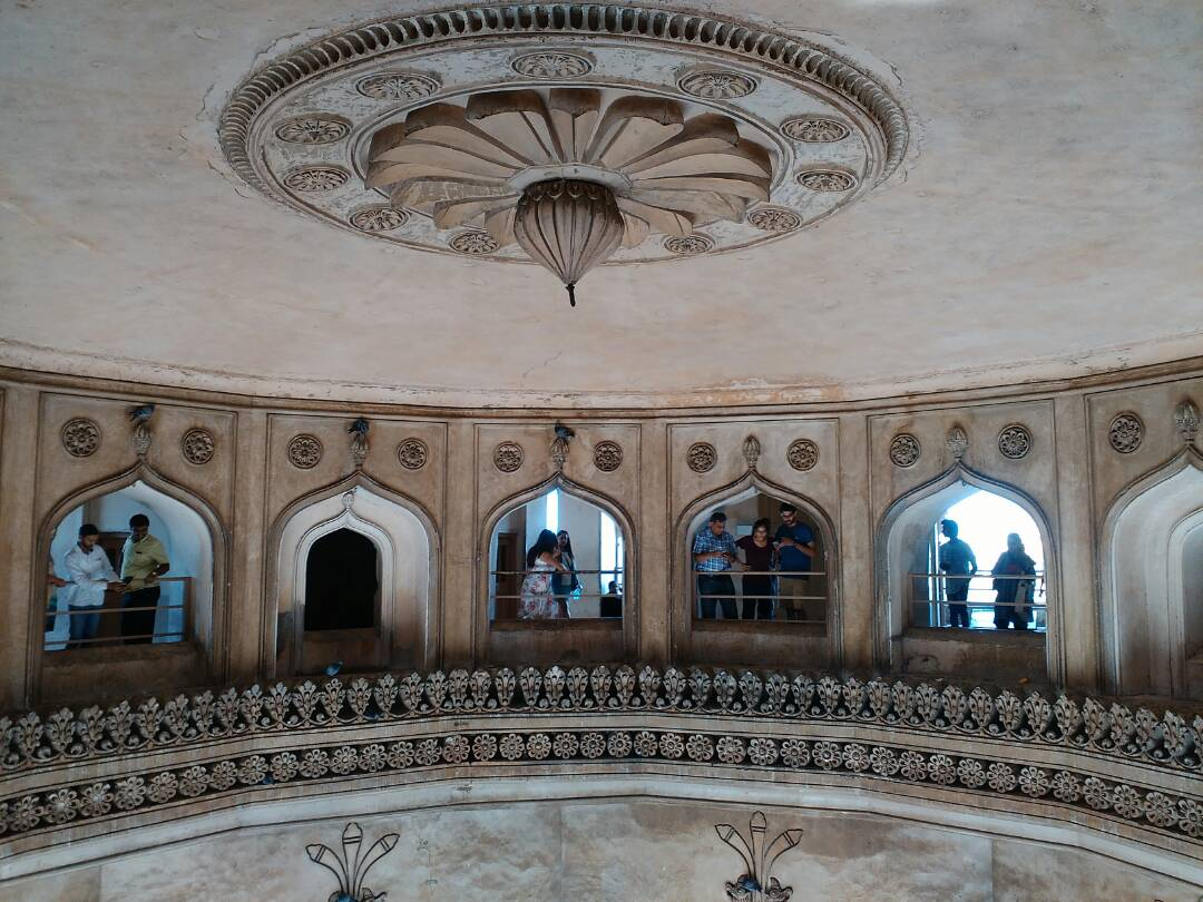 charminar is situated in Hyderabad, it is snap of buliding inside and top view.